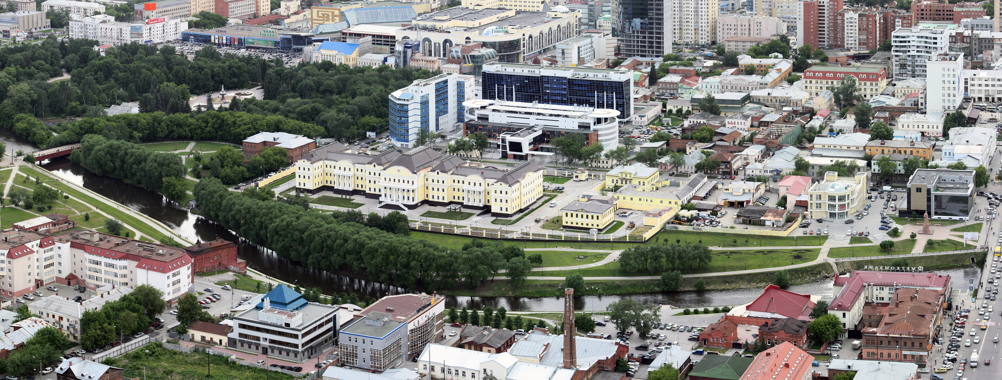 Ekaterinburg. UFD Polpredstvo